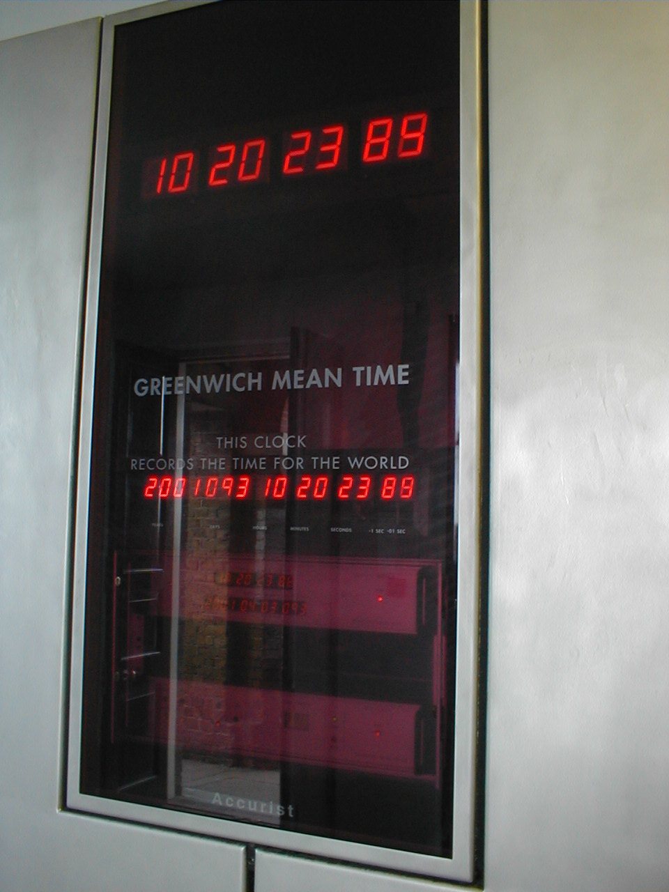 One of the hyper-accurate chronometers at the Royal Greenwich Observatory.